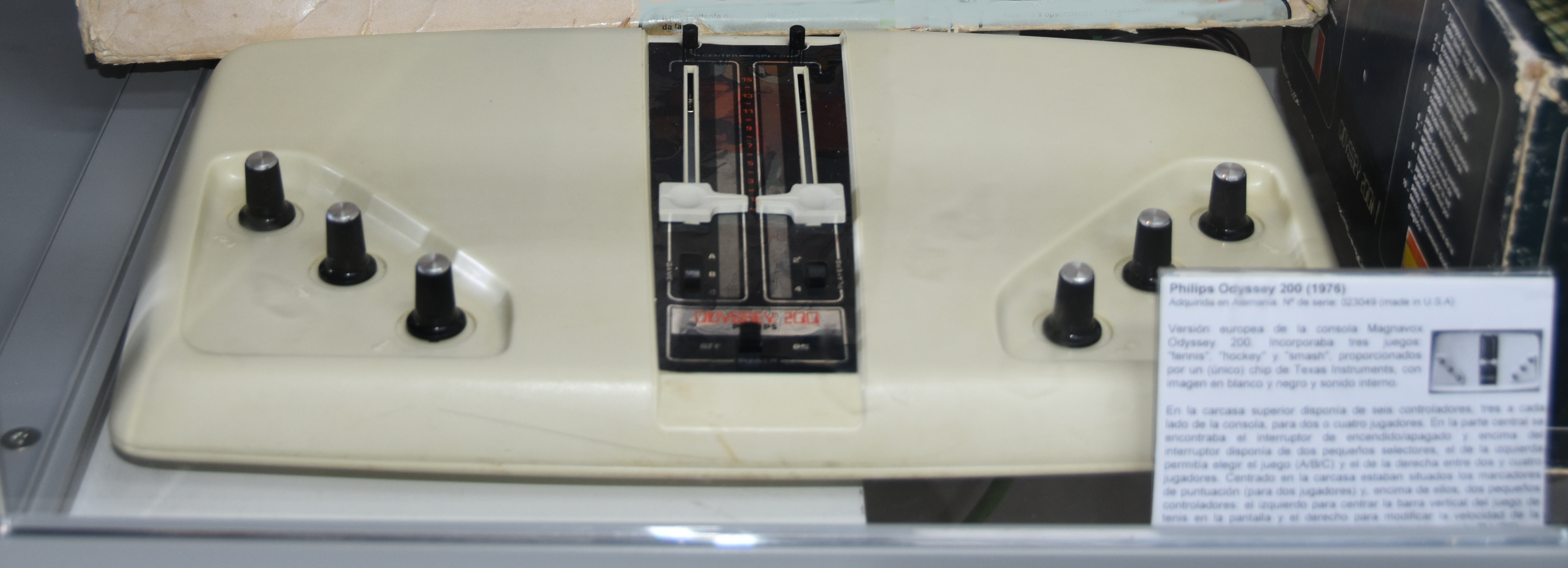 Philips Odyssey 200. Pong console [Fotos por cortesía de Fernando Sáenz]